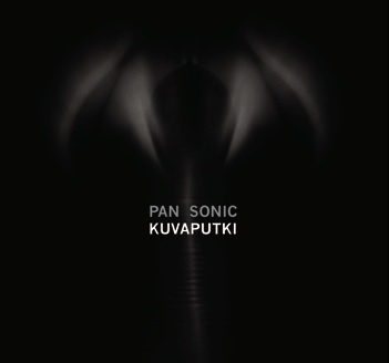 Image from the cover from the commercially available DVD Kuvaputki